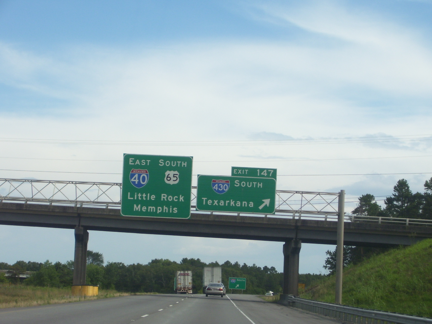 Signage for I-40 exit 147 on the west side of Little Rock, Arkansas.